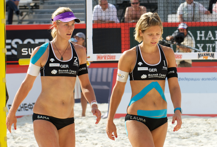 Grand Slam Moscow 2011